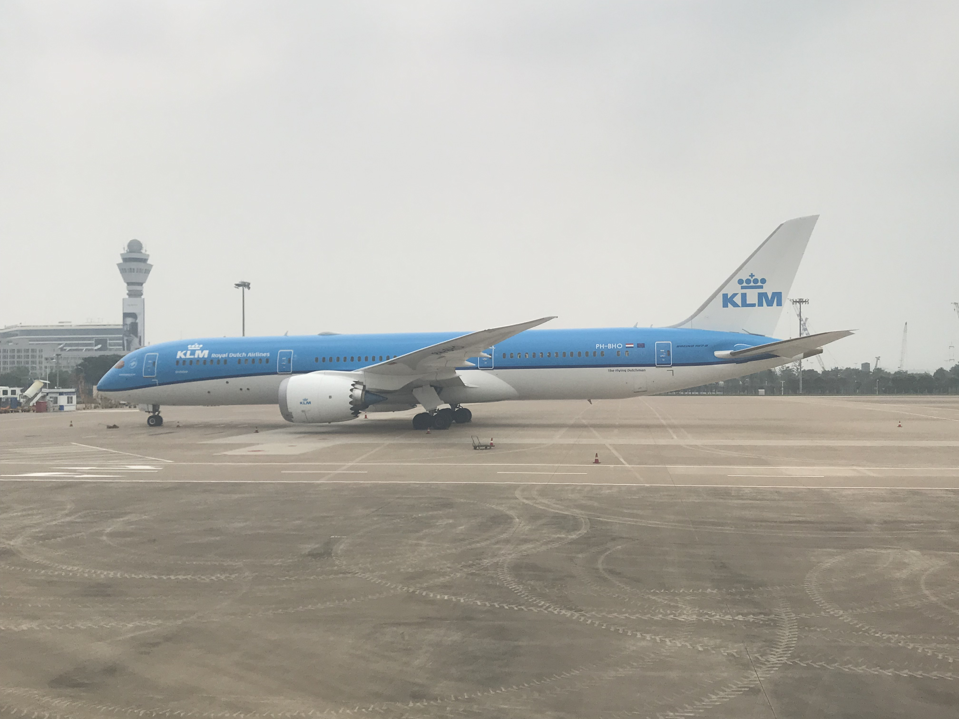 201806 PH-BHO at HGH. However, the flight to AMS that day was canceled.